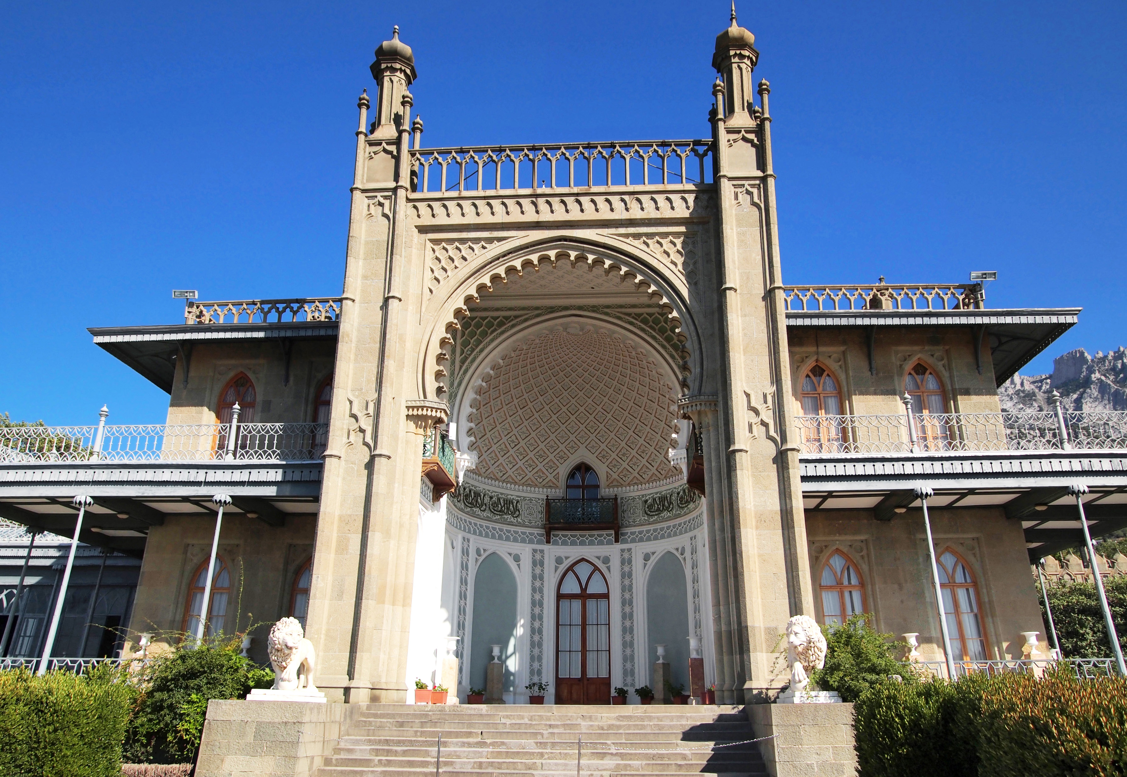 Alupka castle. This photograph was taken with an Olympus E-PL1